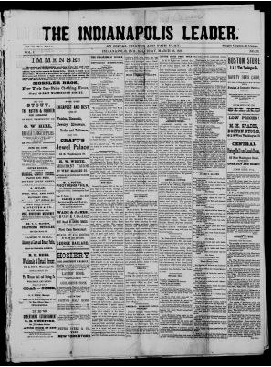 Indianpolis Leader, front page